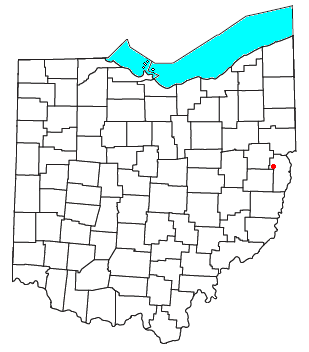 Locator map of the unincorporated community of East Springfield in Jefferson County, Ohio, United States.